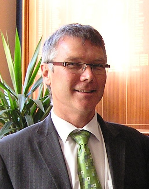 Labour Party NZ MP, David Parker. Speaking to ManaTawa GreyPower.